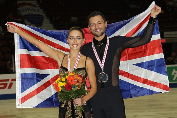 Lilah Fear and Lewis Gibson - 2019 Skate Canada